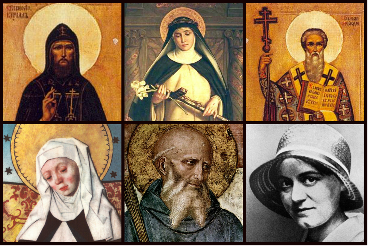 Europe Patron saints Mosaic. Anyone can use these original photos themselves among others and make another collage of (Christians) themselves or remix as they wish, as long as they give the correct source and usage/Copyright given. Dont delete the photos, if one becomes unusable due to copyright, please dont delete, just replace the photo or i will.